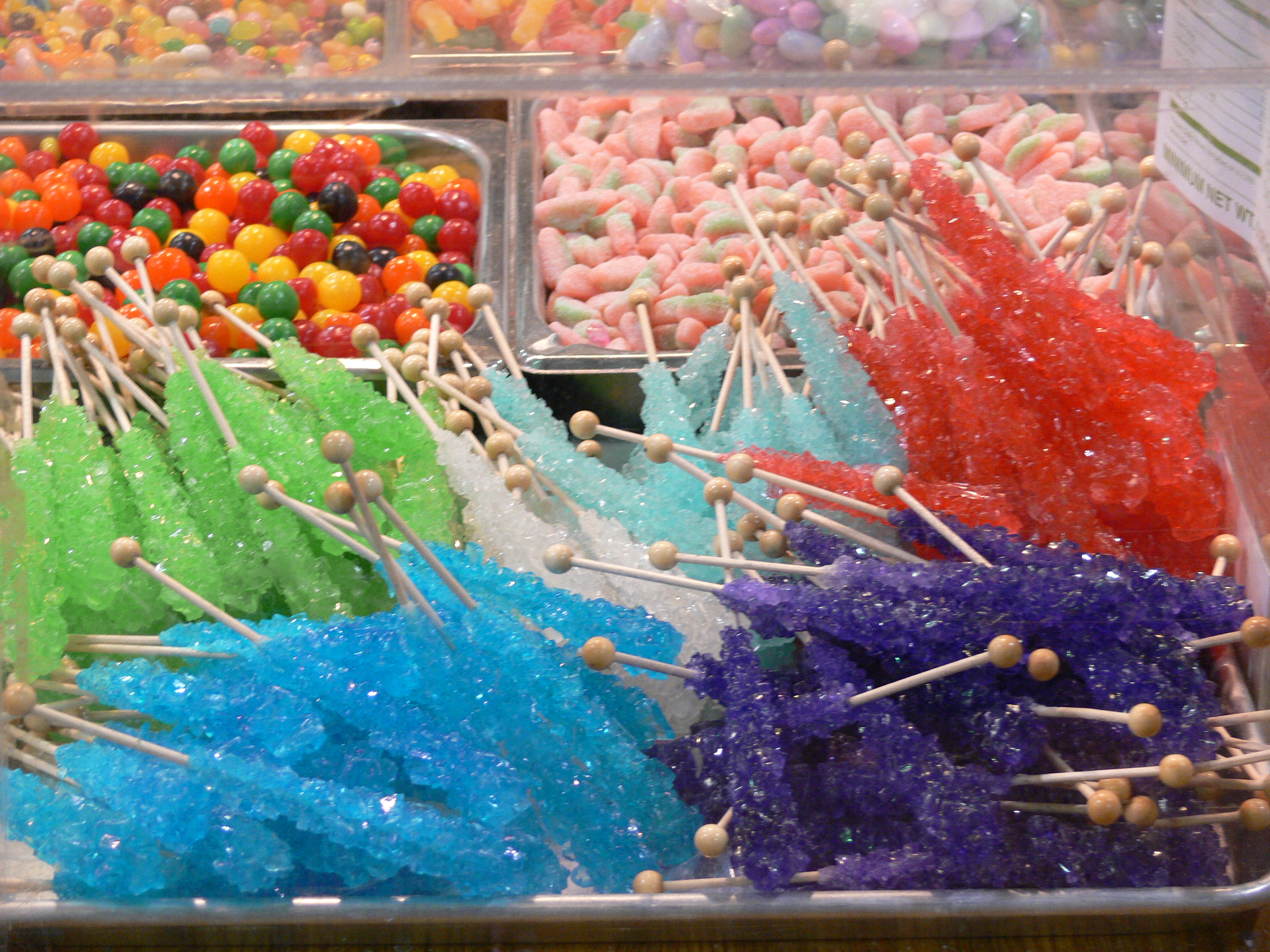 Rock candy (in the foreground) and other candy on sale at the Texas State Fair 2008, Dallas, Texas